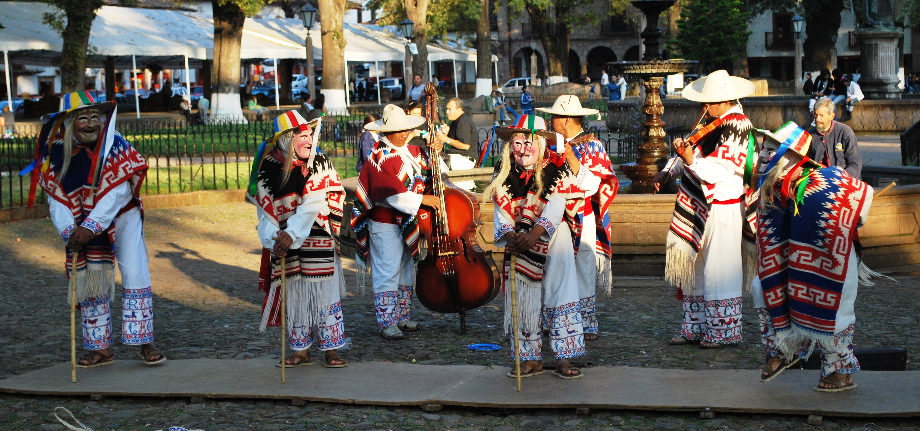 Performance of the Danza de los Viejitos at the Vasco de Quiroga Plaza in Patzcuaro, Michoacan